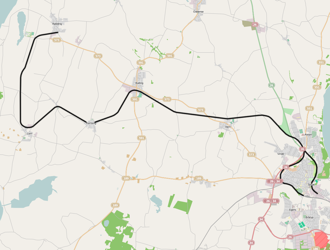 Railway line Skive - Spøttrup